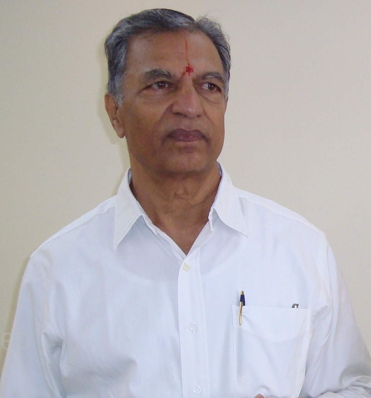 Picture of Prof. E.S.Dwarakadasa